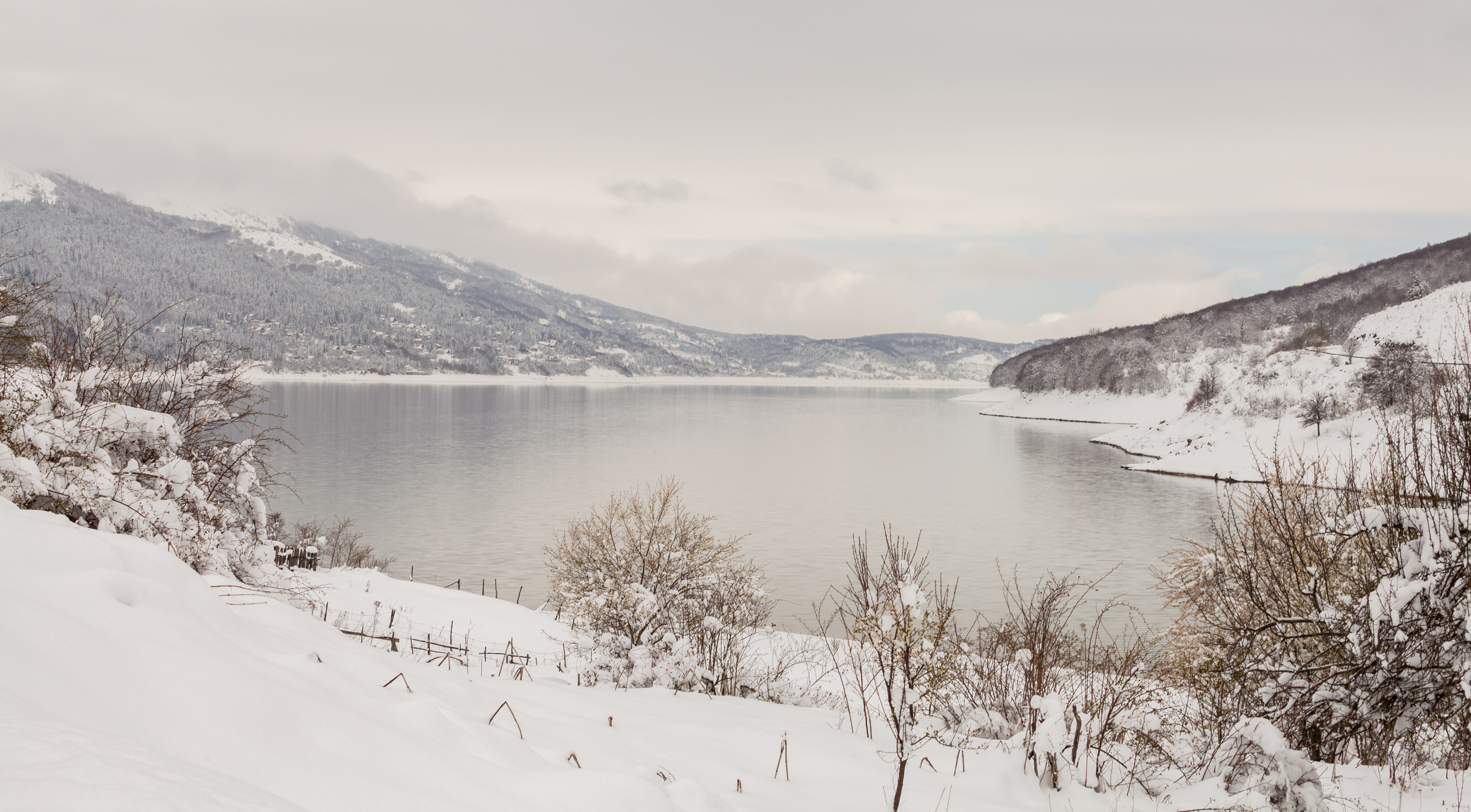 Mavrovo Lake, Macedonia